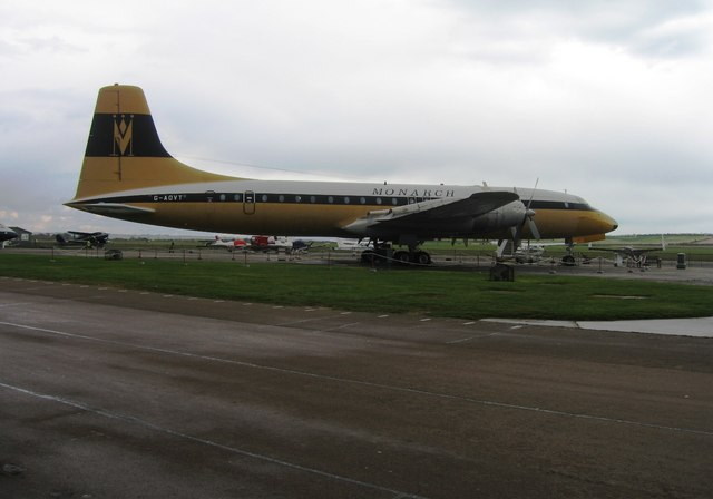 Bristol Britannia - Duxford Airfield